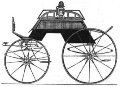 Illustration is page from 792 of the encyclopedia. It is part of the 'Carriages, Coaches, Chariots, Wagons and Carts' entry. From the Google Books archive: Title Johnson's new universal cyclopaedia: a scientific and popular treasury of useful knowledge, Volume 1, Part 1 Johnson's New Universal Cyclopaedia: A Scientific and Popular Treasury of Useful Knowledge Publisher A.J. Johnson & son, 1877 Original from Harvard University Digitized Aug 30, 2007